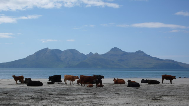 Cattle on Cleadale Beach This beach is well used by the cattle and you would be cautious about going barefoot here